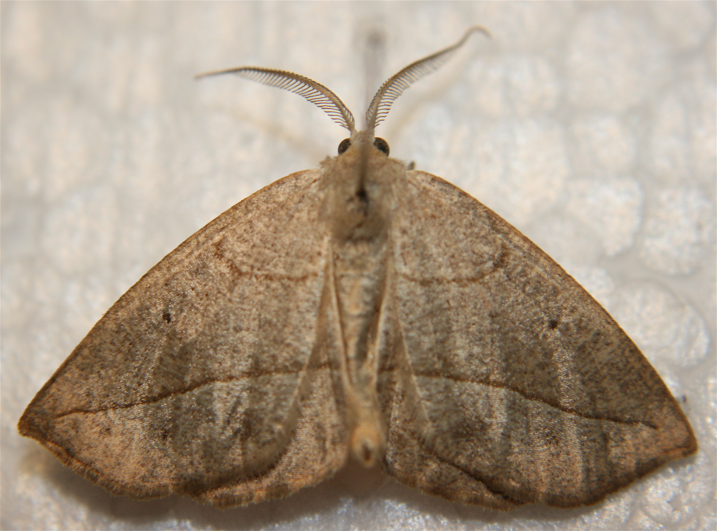 Confused eusarca (Eusarca confusaria) in the Hough collection, caught July 8th, 2007.